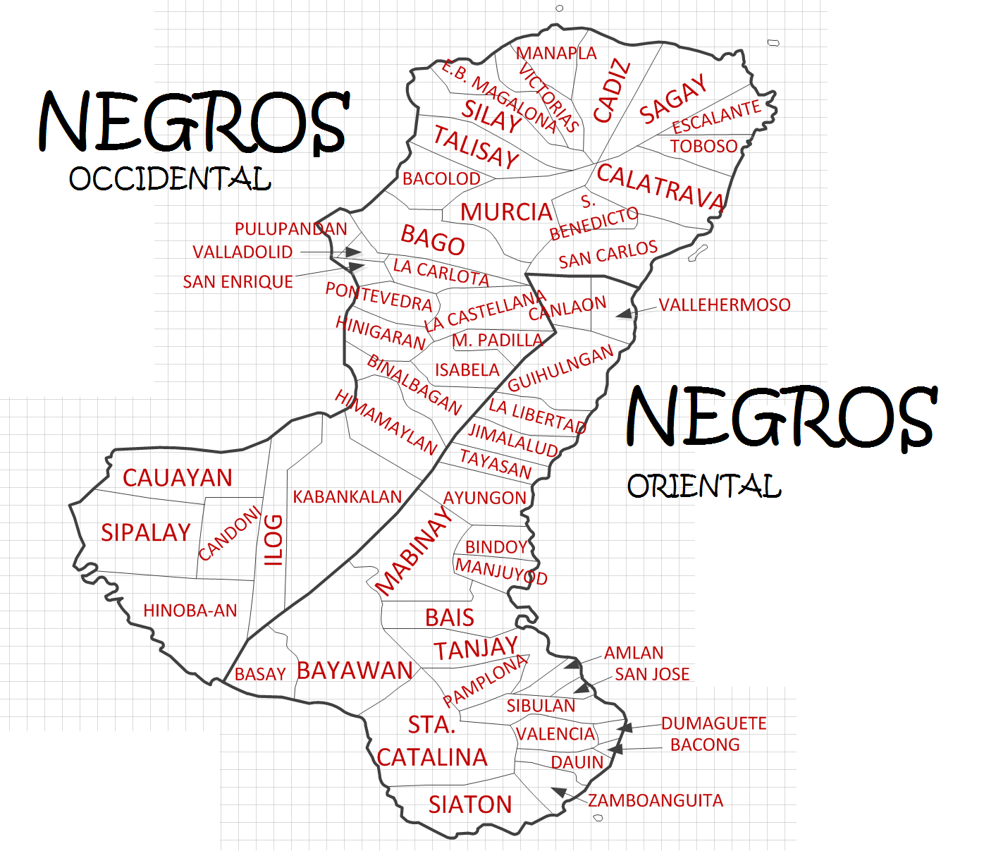 Map of Negros Island Filipino: Mapa ng Isla ng Negros